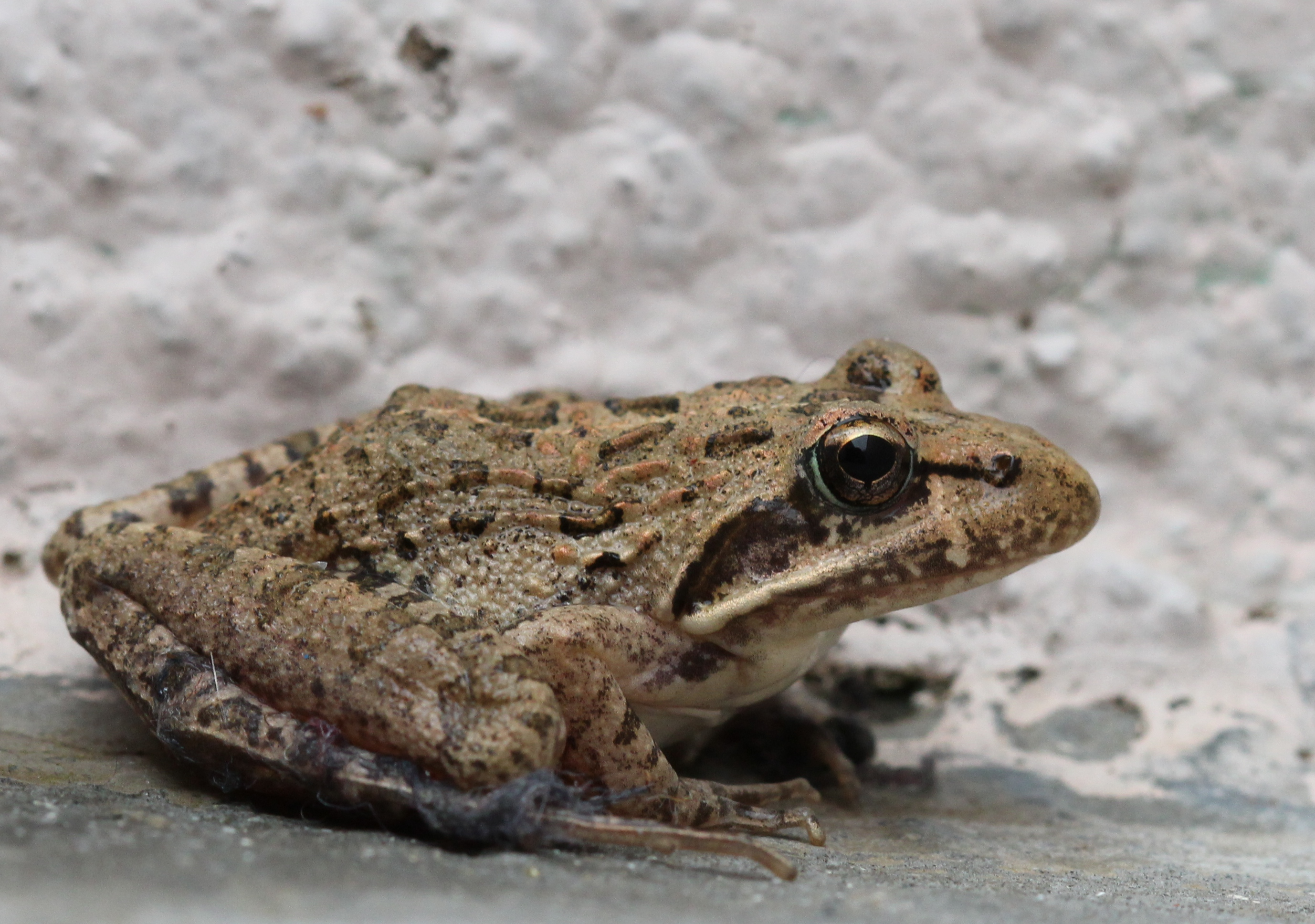 Strongylopus grayii Clicking Stream Frog